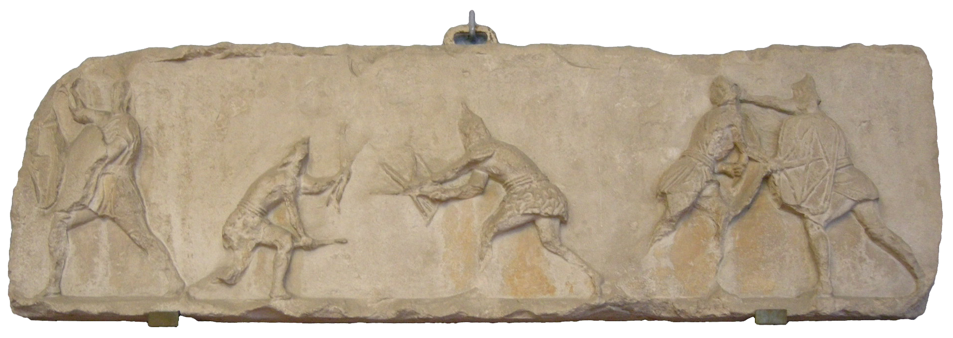 Sagittarii combat in Museum Bardini (Florence, Italy)